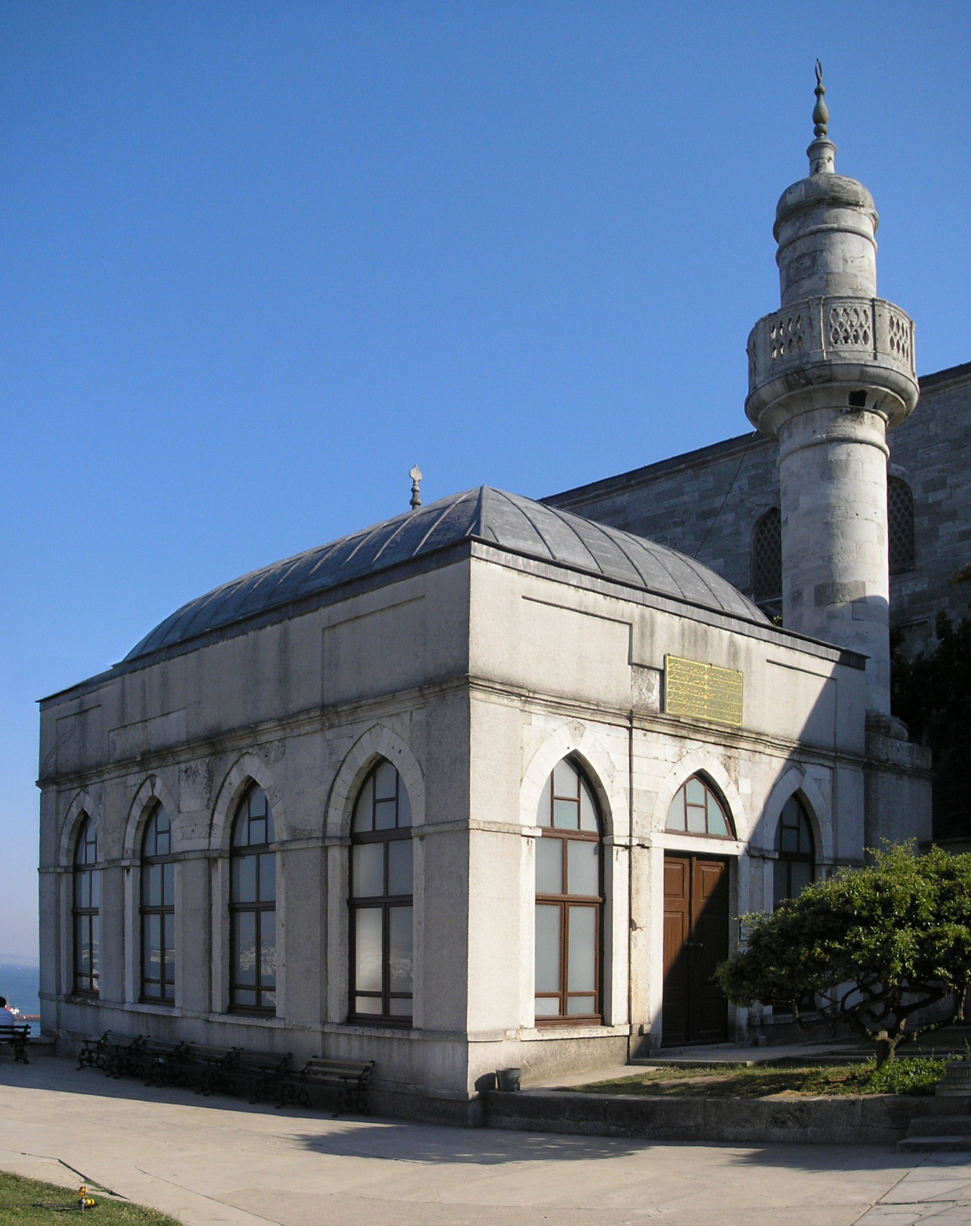 The Imperial Sofa Mosque (Sofa-i Hümâyûn Camii) in the fourth court of the Topkapi Palace, Istanbul.